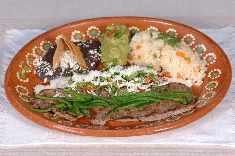 The World-Known Carne a la Tampiqueña.